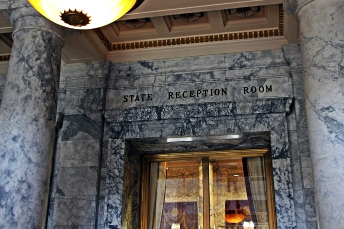 entrance to the State Reception Room in the Washington State Capitol in Olympia, United States pictured in 2017